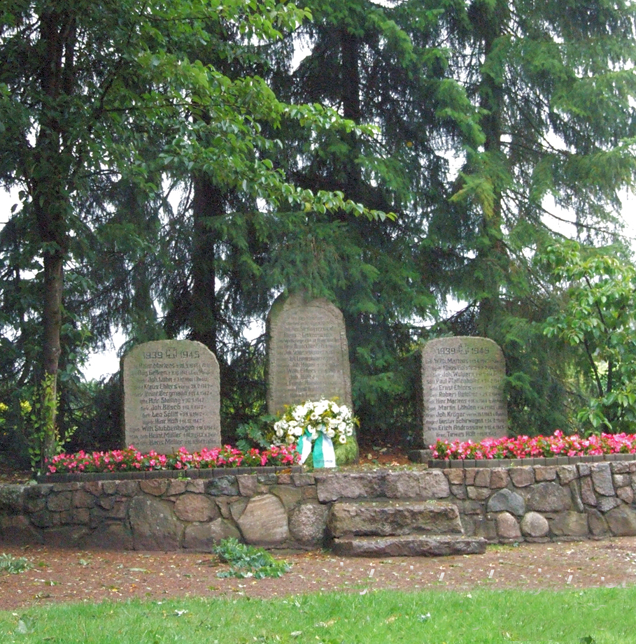 Monument for soldiers from the village Brest in Lower Saxony, who died in the German-French war 1870/71, WW I, and WW II. The monument stands near the village cemetery at Rehlinger Strasse.